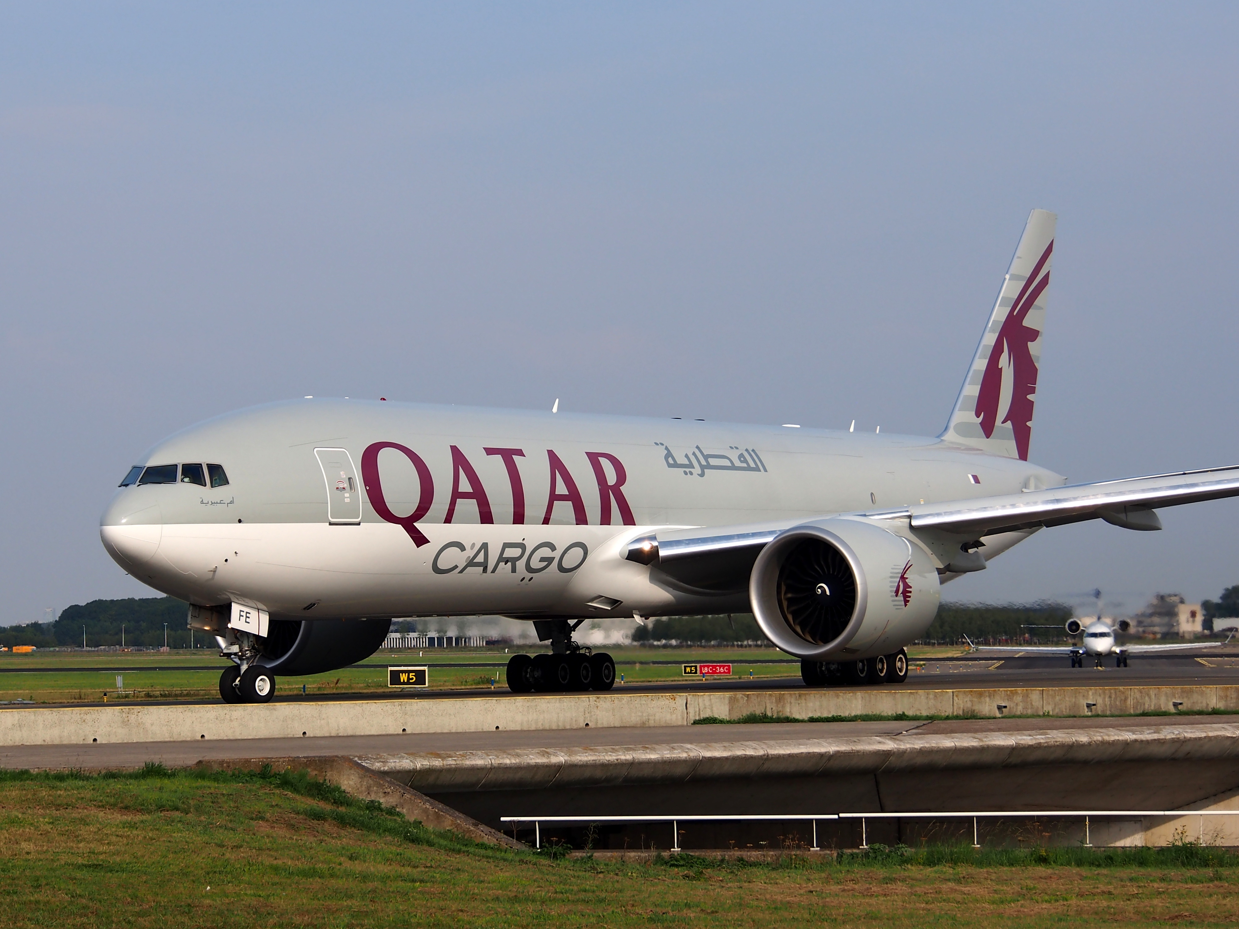 Photographed at Schiphol, Amsterdam airport, (IATA: AMS, ICAO: EHAM), the Netherlands.